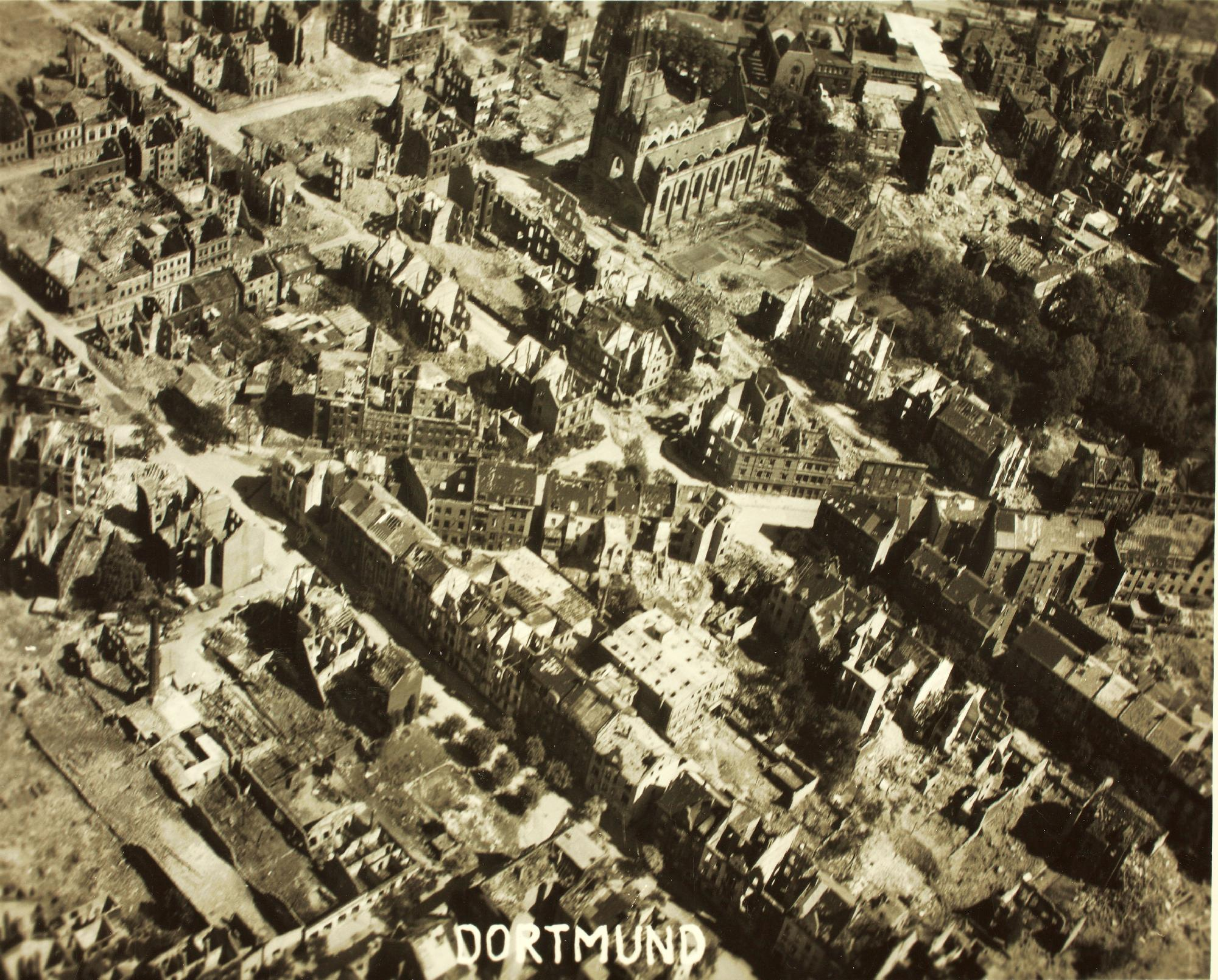 Reconnaissance Photo Aerial View Germany, World War Two, 1941-1945